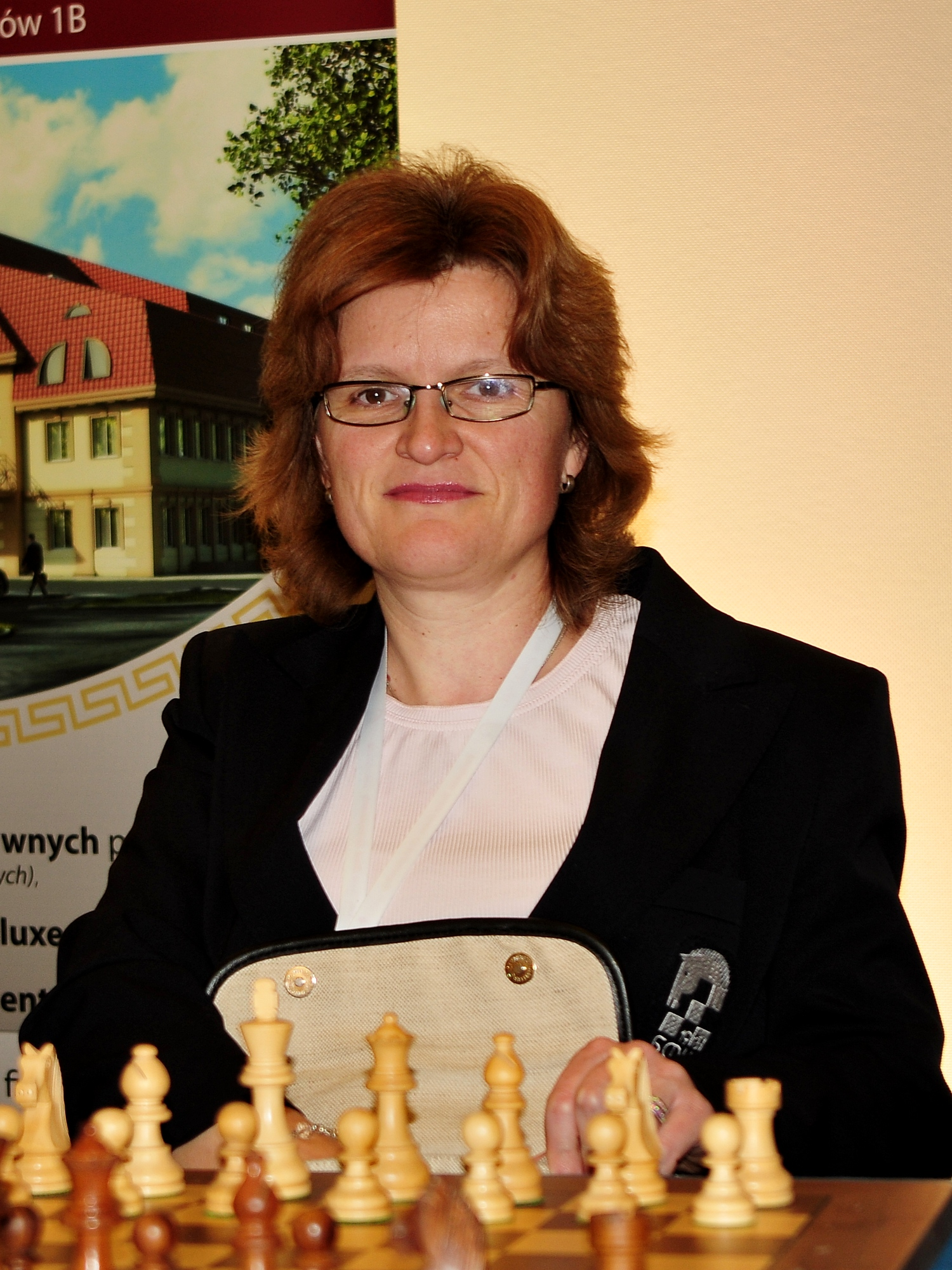 WGM Margarita Voiska, European Chess Team Championship Warsaw 2013